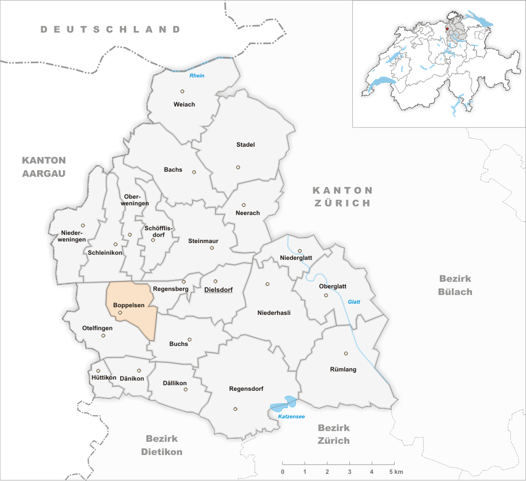 Municipality Boppelsen